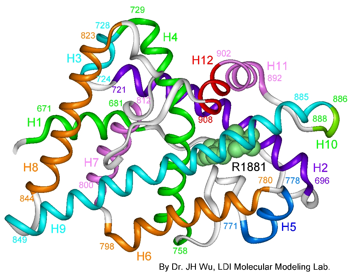 3-D model of the human androgen receptor protein.